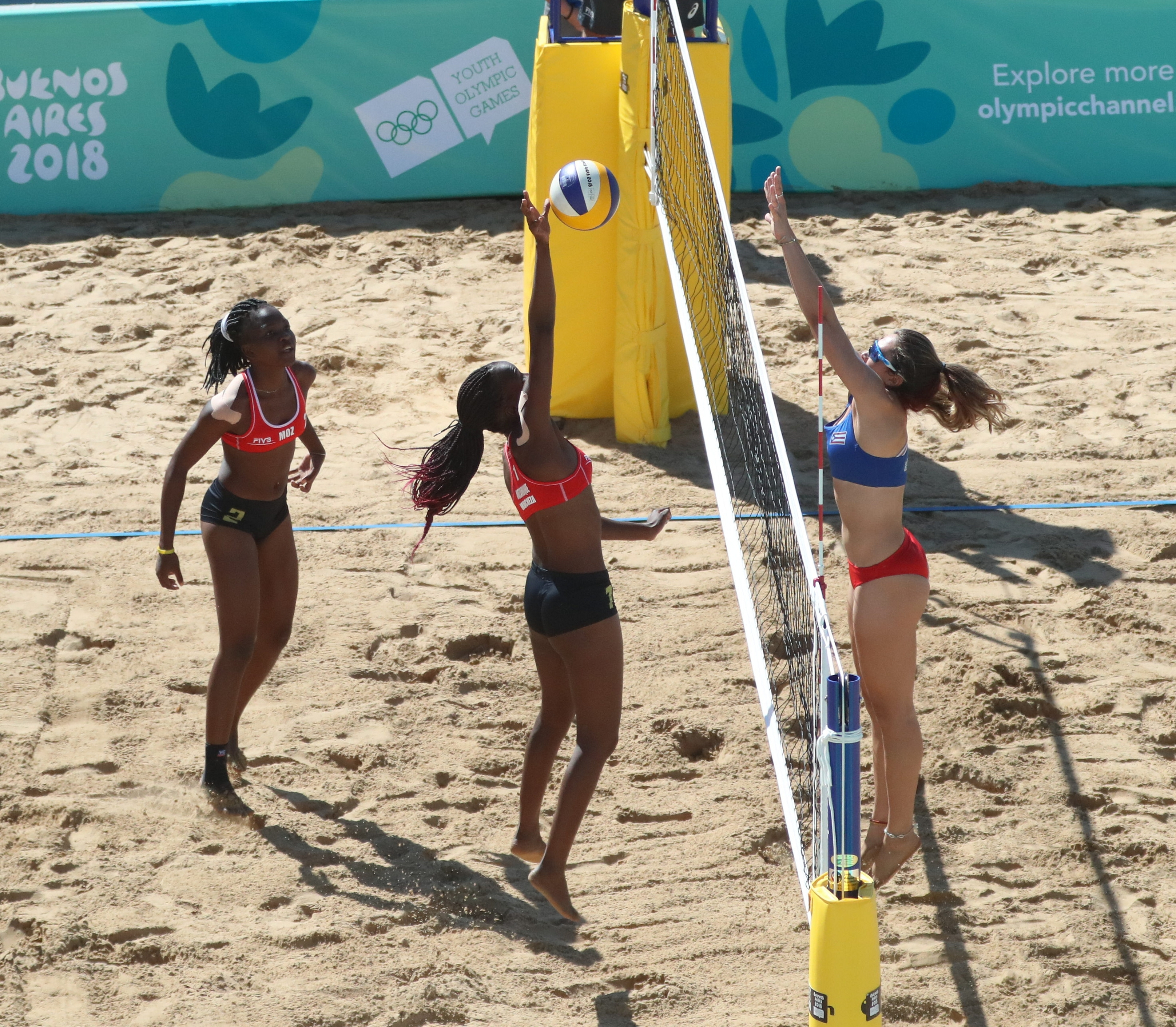 Beach volleyball, Girls' Round of 24, Mozambique versus Puerto Rico at the 2018 Summer Youth Olympics in Buenos Aires on 13 October 2018.